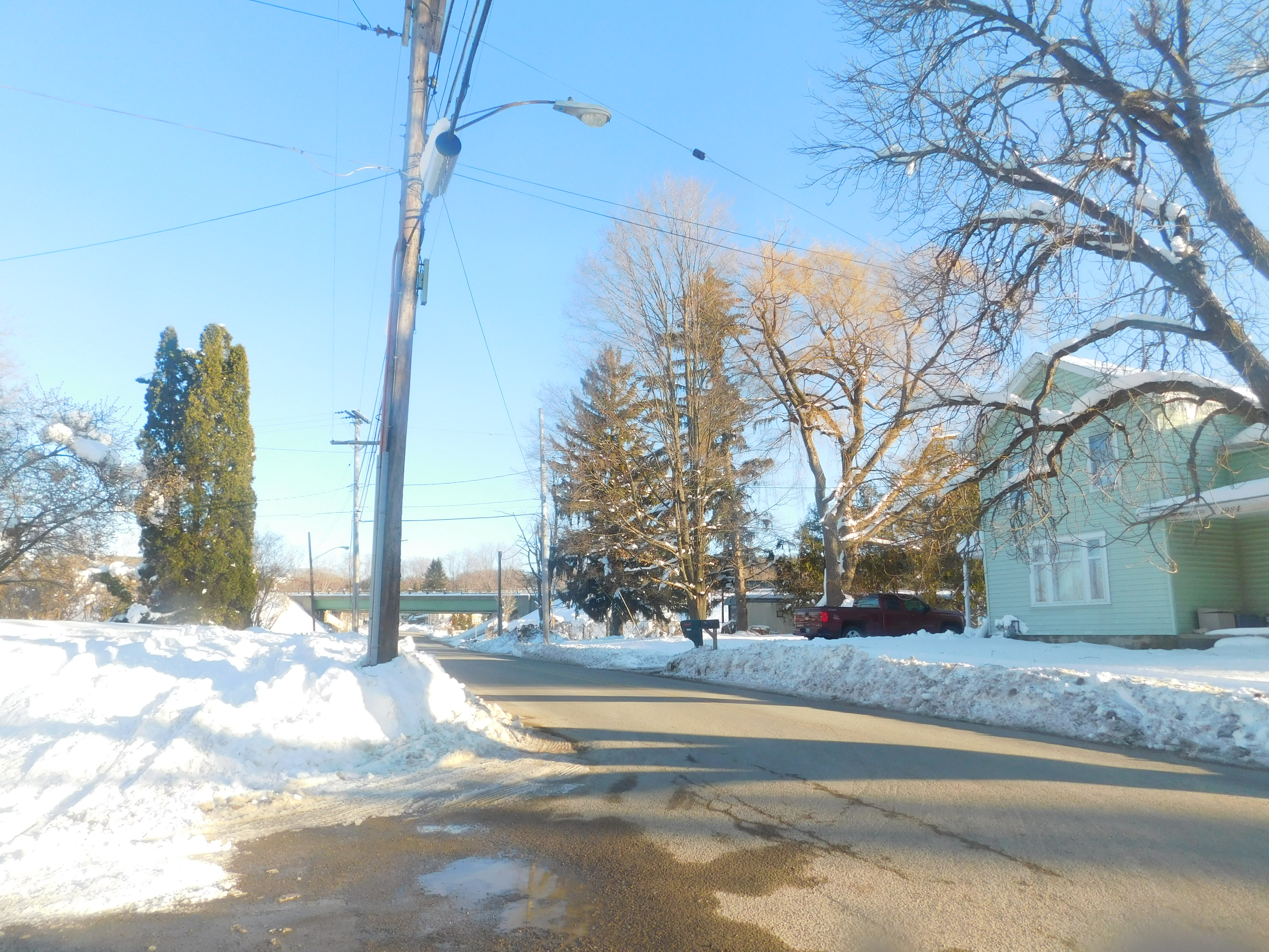 County Route 90 through Perkinsville, New York.